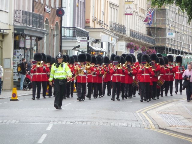 High Street and the Band of the Scots Guards